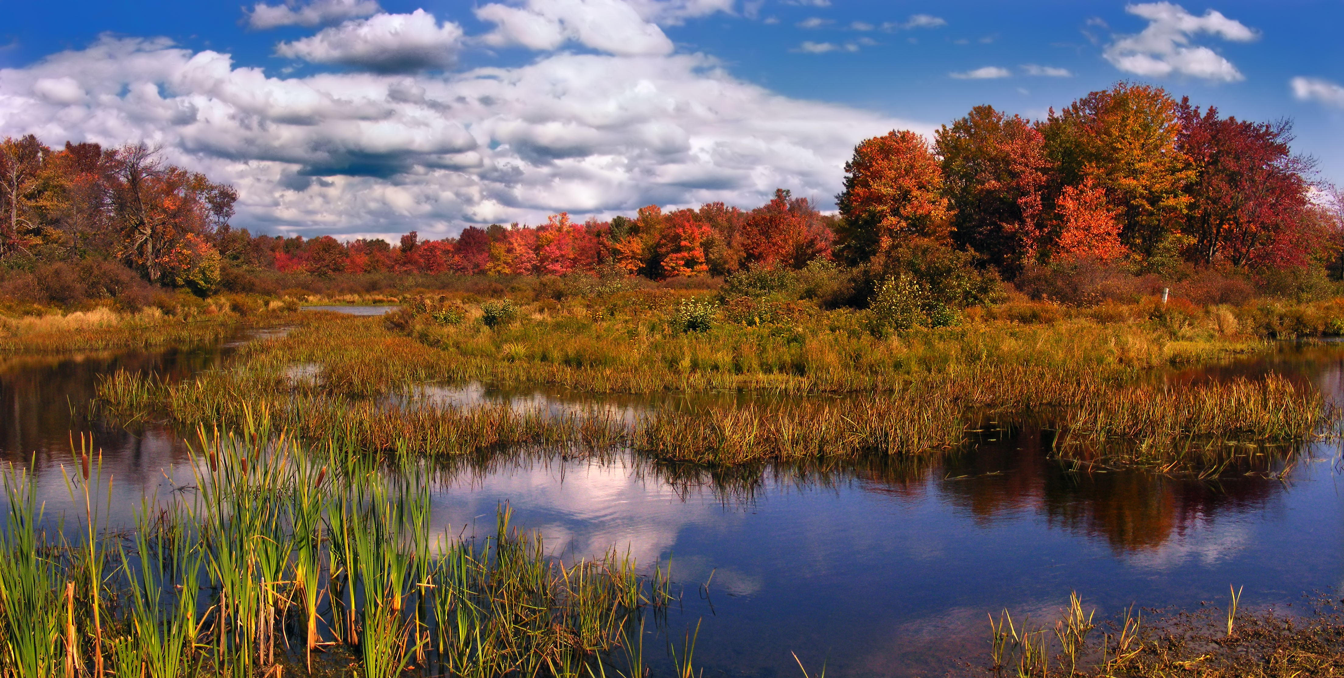 Mill Pond, Monroe County.